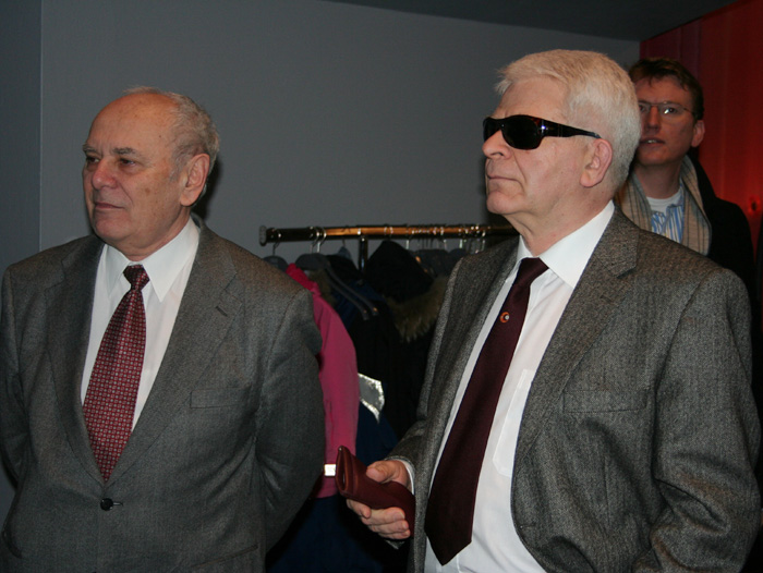 GM Lajos Portisch with former world champion GM Boris Spassky at the Reykjavik Open, March 2008.